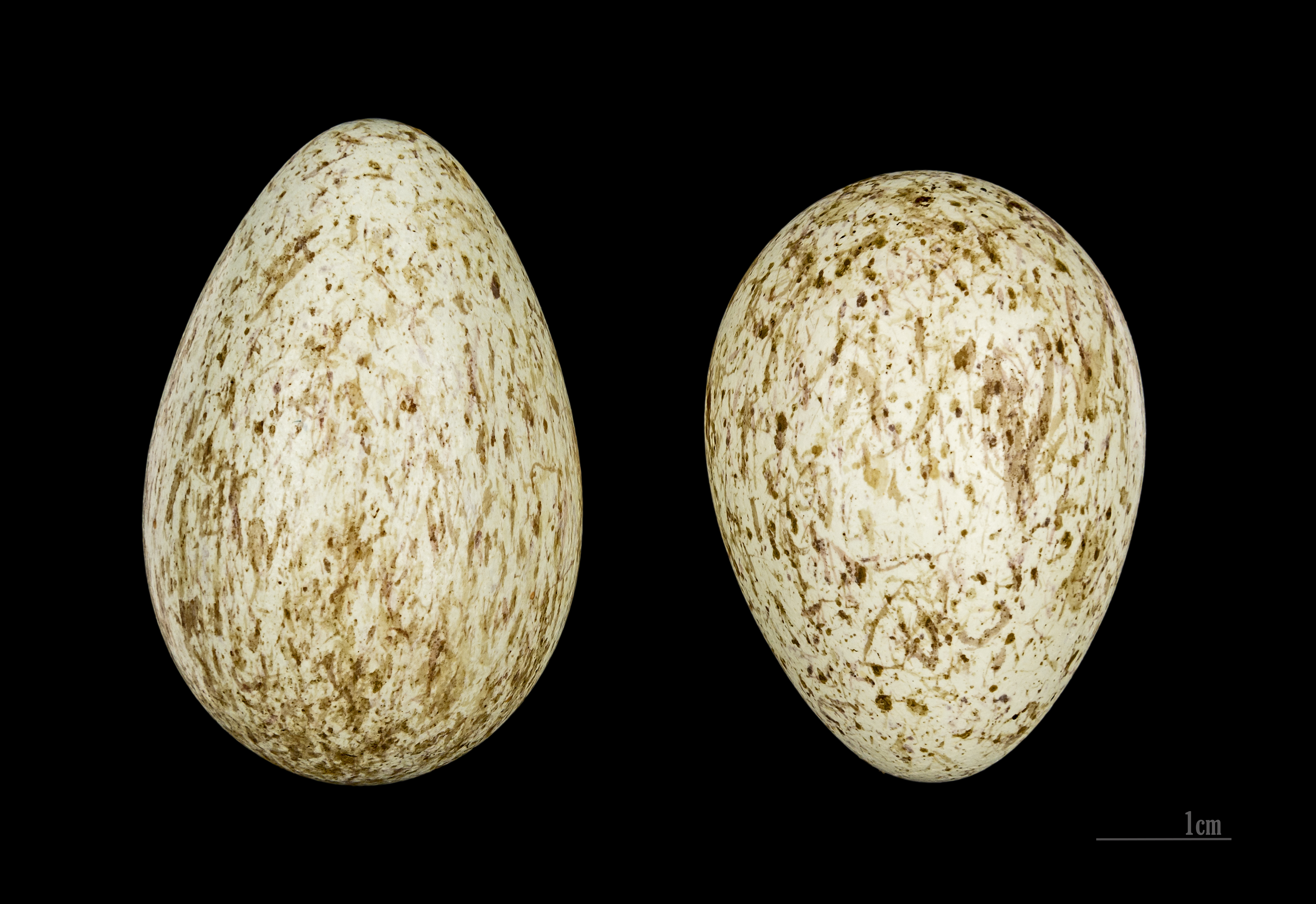 Egg of Common Raven. Collection of Henri Heim de Balsac/Jacques Perrin de Brichambaut.